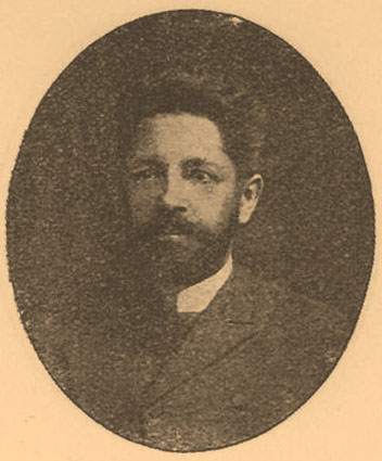 Illustration from Brockhaus and Efron Encyclopedic Dictionary (1890—1907)